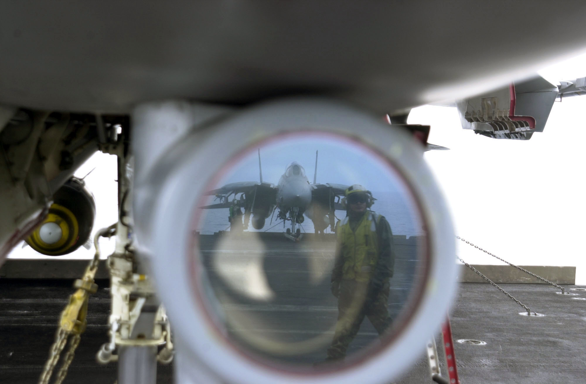 The Mediterranean Sea (Apr. 18, 2003) -- An F-14B Tomcat assigned to the "Swordsmen" of Fighter Squadron Thirty Two (VF-32) sits on the flight deck aboard USS Harry S. Truman (CVN 75). Truman and Carrier Air Wing Three (CVW-3) are currently on deployment conducting missions in support of Operation Iraqi Freedom. Operation Iraqi Freedom is the multi-national coalition effort to liberate the Iraqi people, eliminate Iraq's weapons of mass destruction, and end the regime of Saddam Hussein. U.S. Navy photo by Photographer's Mate Airman Justin S. Osborne. (RELEASED)